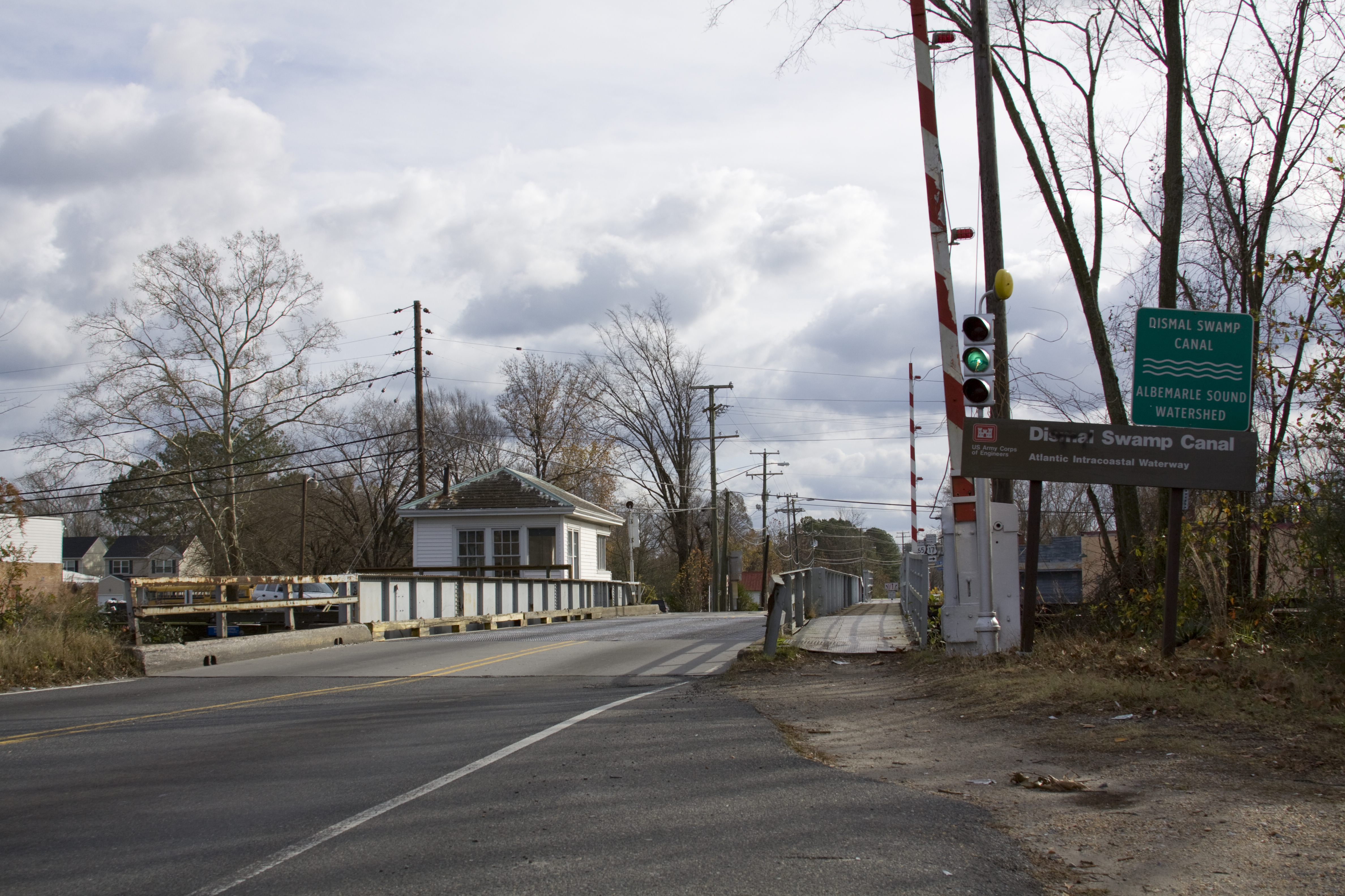 Built in 1934, Deep Creek Bridge (in Deep Creek, Virginia) is a federally owned and operated facility. The bridge passes over the Dismal Swamp Canal where U.S. Route 17 Business crosses in Chesapeake, Va. (Official U.S. Army Photo by Patrick Bloodgood). This view is looking east.